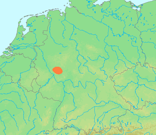 Locator maps for mountain ranges : Location Westerwald.PNG